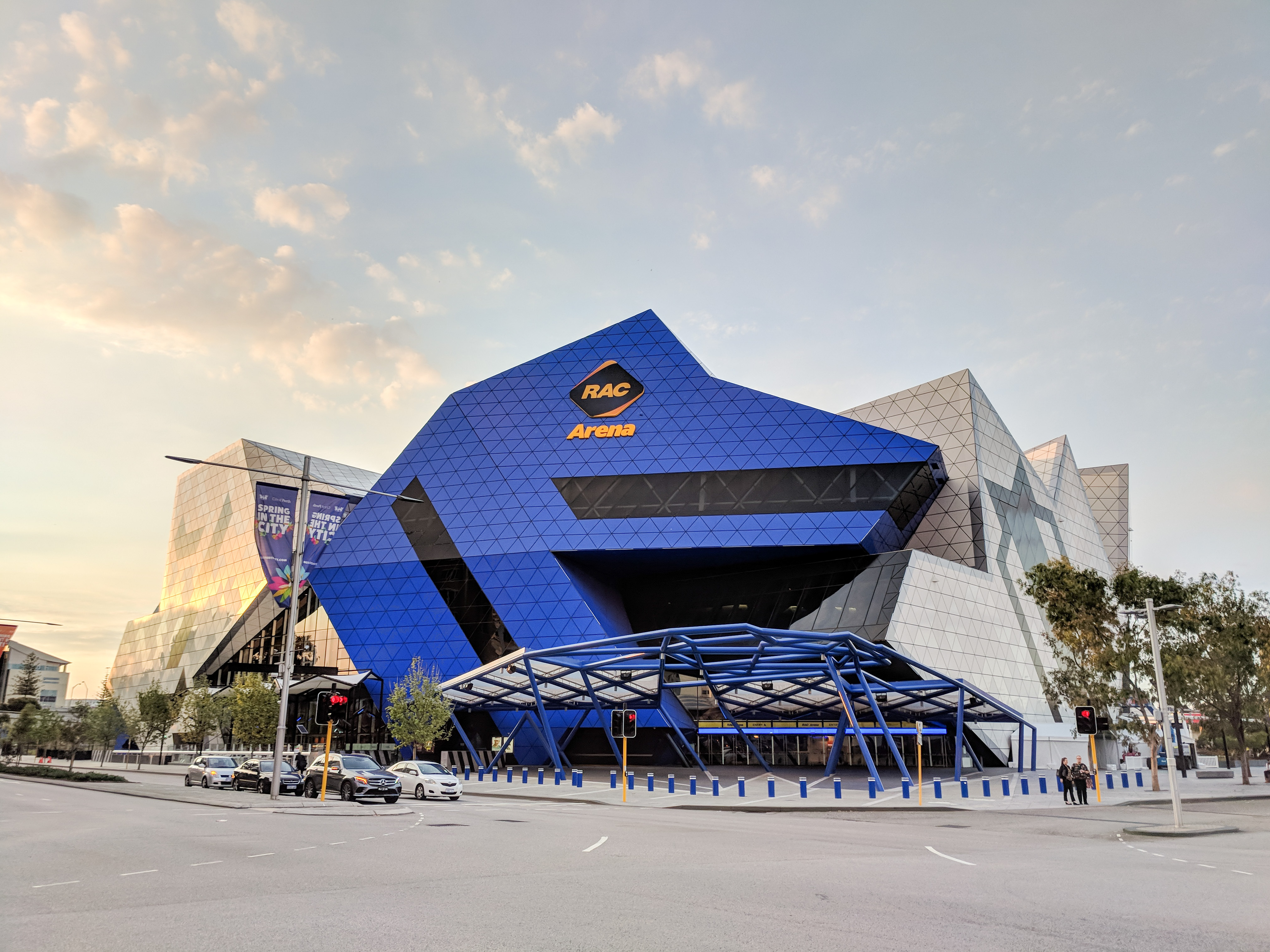 RAC Arena